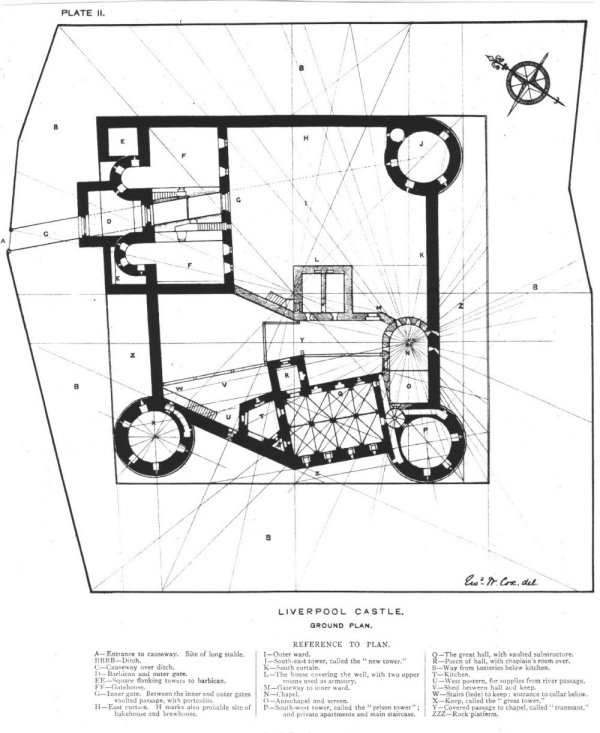 A plan of Liverpool Castle made by 19thC historian Edward Cox. The plan was created using authentic records and contemporary sources.